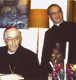 Mons. Jean-François Guérin with Cardinal Siri